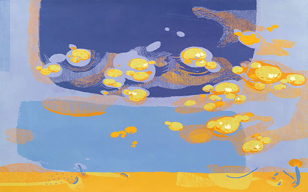 Ivo Křen, printmaker from the Czech Republic, Blooming river, multicoloured linocut 75 x 120 cm, 2006